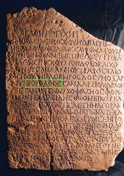 photo of the Tanais stone containing the word for "Croats", from German wikipedia (18:53, 18. Apr 2004 . . Triglaw (63589 Byte) (Public Domain)) sr:?????:Horovathos.jpg